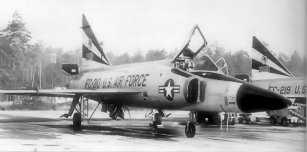 U.S. Air Force Convair F-102A-65-CO Delta Dagger fighters (s/n 56-1210, 56-1219) of the 526th Fighter Interceptor Squadron, 86th Air Division, at Ramstein Air Force Base, (West) Germany, in the 1960s.